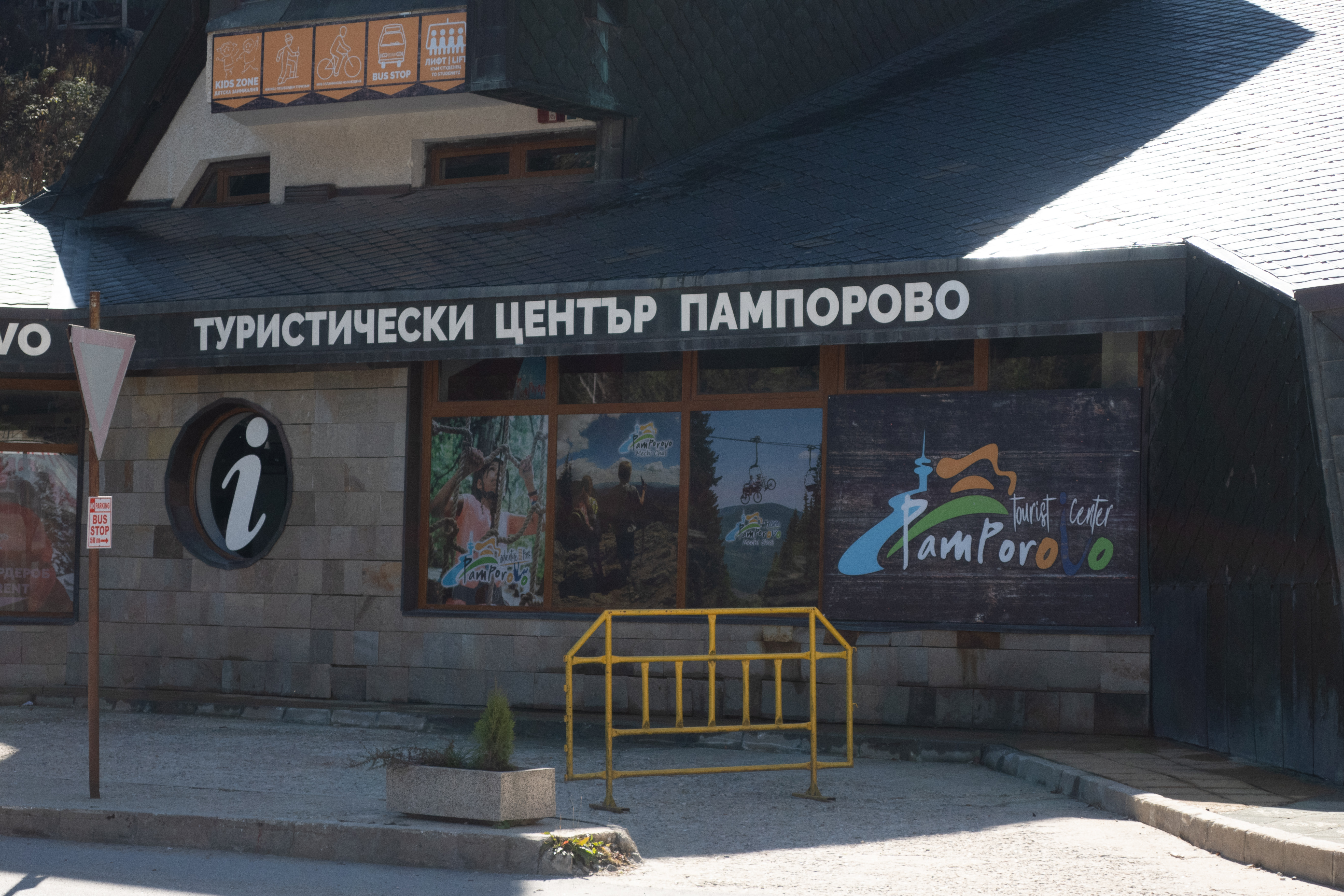 Pamporovo